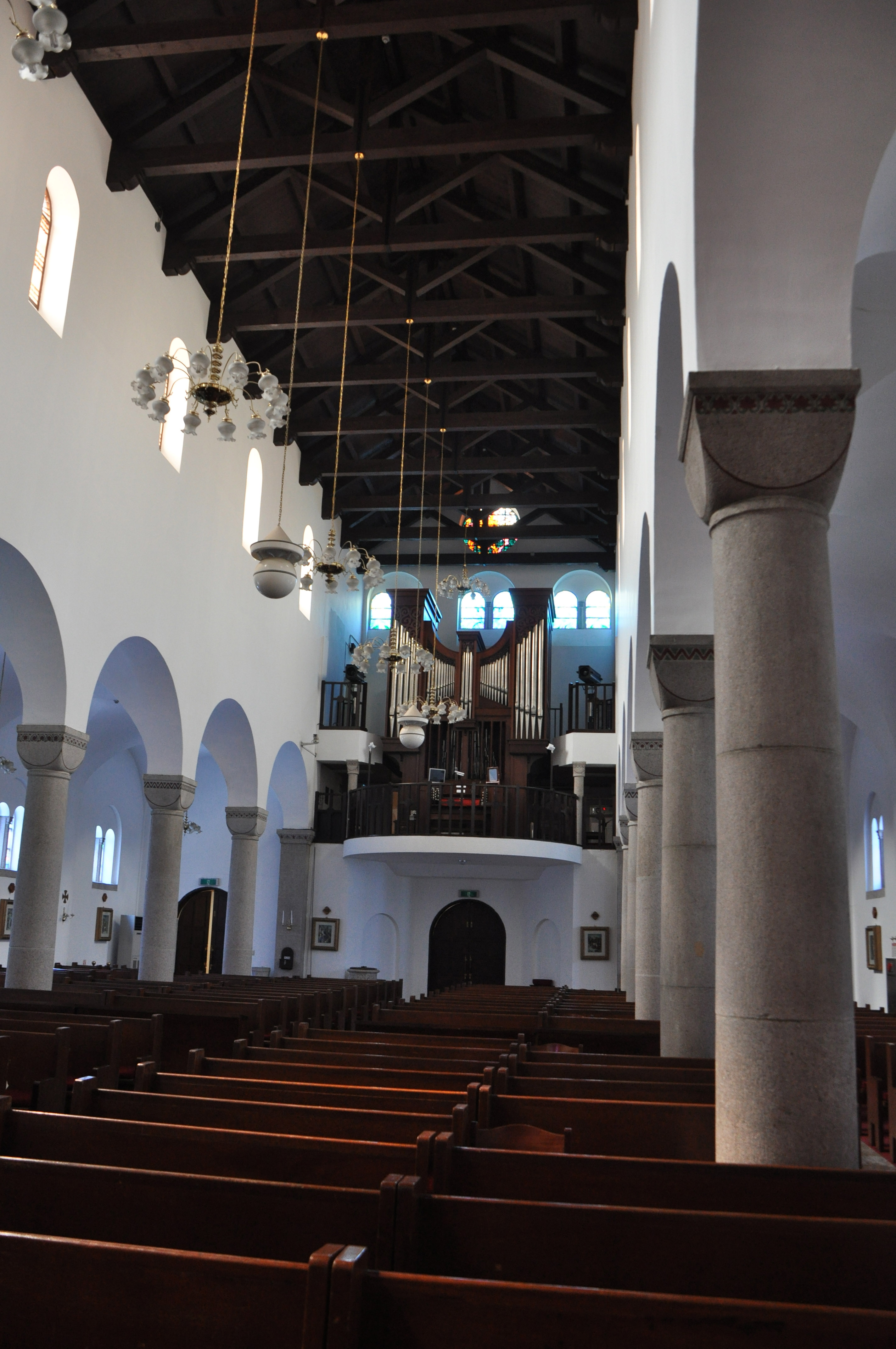 Seoul Anglican Cathdral - Inside / Back